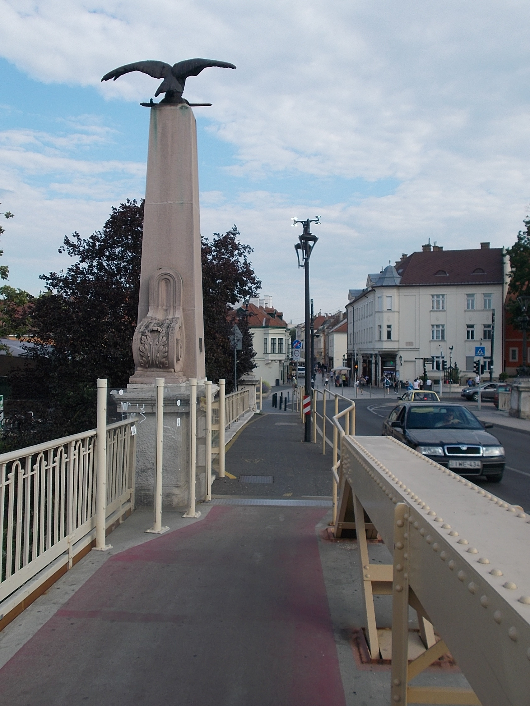 Kossuth Bridge, the bridgheads decorated with obelisks and Turul statues (2001?) on the top of its. - Győr, Győr-Moson-Sopron County, Hungary.